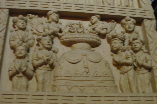 Chaitya Bhoomi is a memorial to B R Ambedkar, Chief architect of Indian Constitution.Where he was cremated here after his death on 6 December 1956.